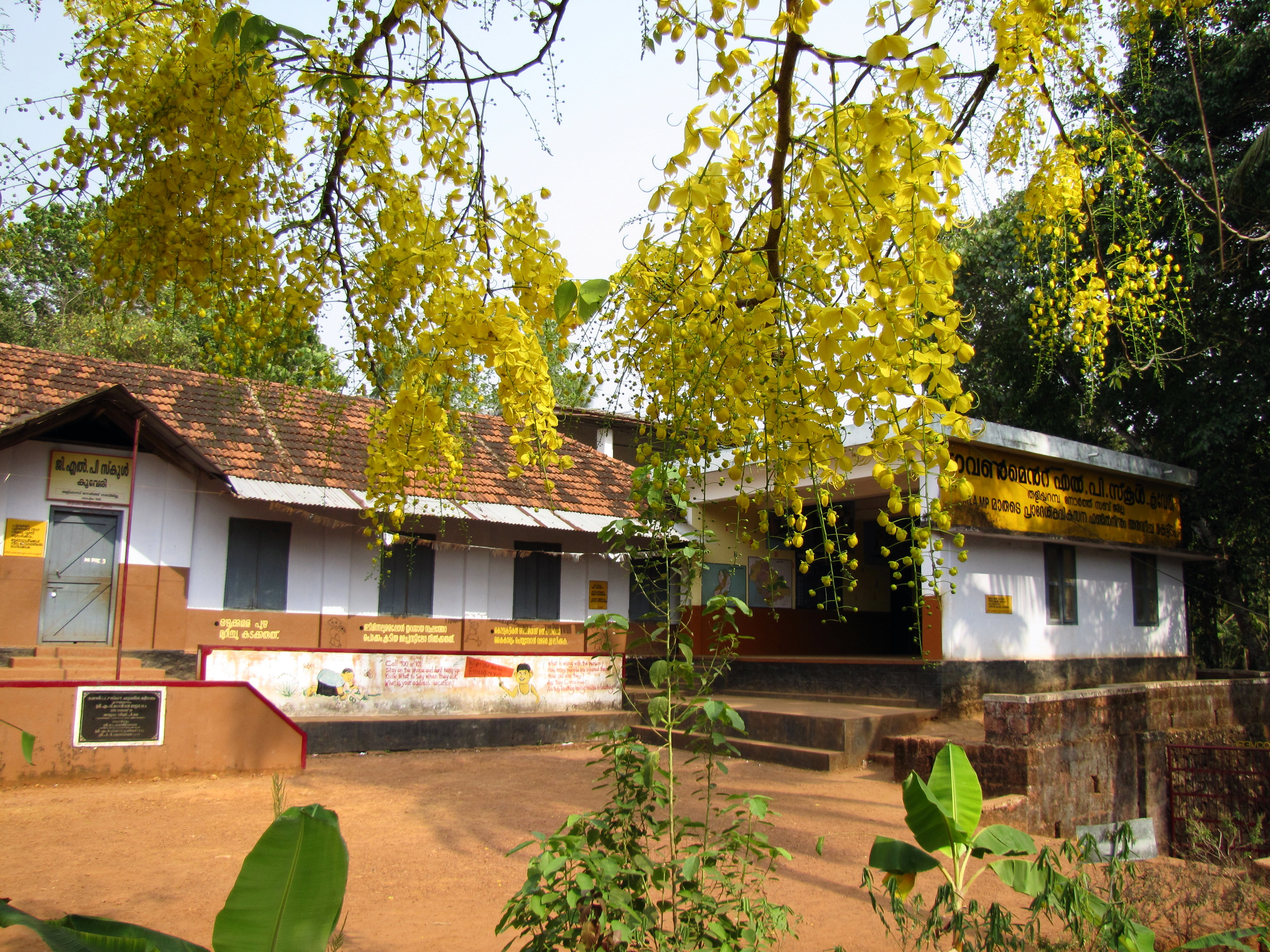 Cassia fistula flowerd at Government L.P. School, Koovery